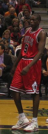 A photo of Luol Deng playing against the Milwaukee Bucks.